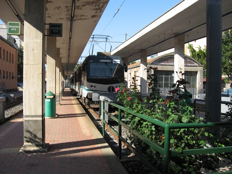 Train Station of Viterbo.